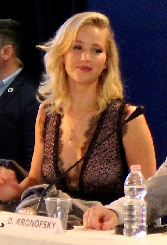 The cast and the director of the movie "Mother!" during a press conference in Venice, Italy